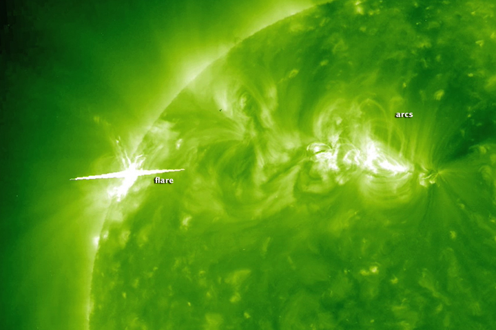 This image, captured by NASA’s Solar Terrestrial Relations Observatory (STEREO) Ahead spacecraft on February 12, 2010, shows one such storm (albeit a very small one) brewing in two active areas of the Sun. Two active regions glow brightly in this ultraviolet image of the Sun. A small flare rises from the active area on the left. Flares are intense explosions on the Sun that blast radiation into space. This one paints a white line across the left horizon of the Sun. The active area on the right churns with magnetic loops. Arcs of charged particles rise from the surface and are drawn back down again in the magnetic field.